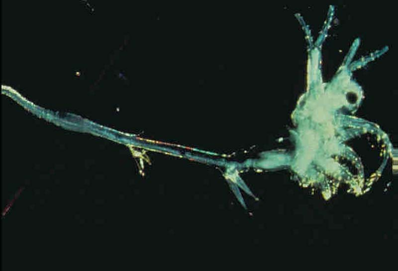 Color microphotograph of the water flea Bythotrephes cederestroemii.